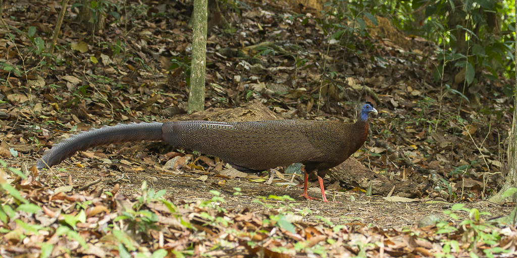 Great Argus Argusianus argus, Khao Sok, Thailand.